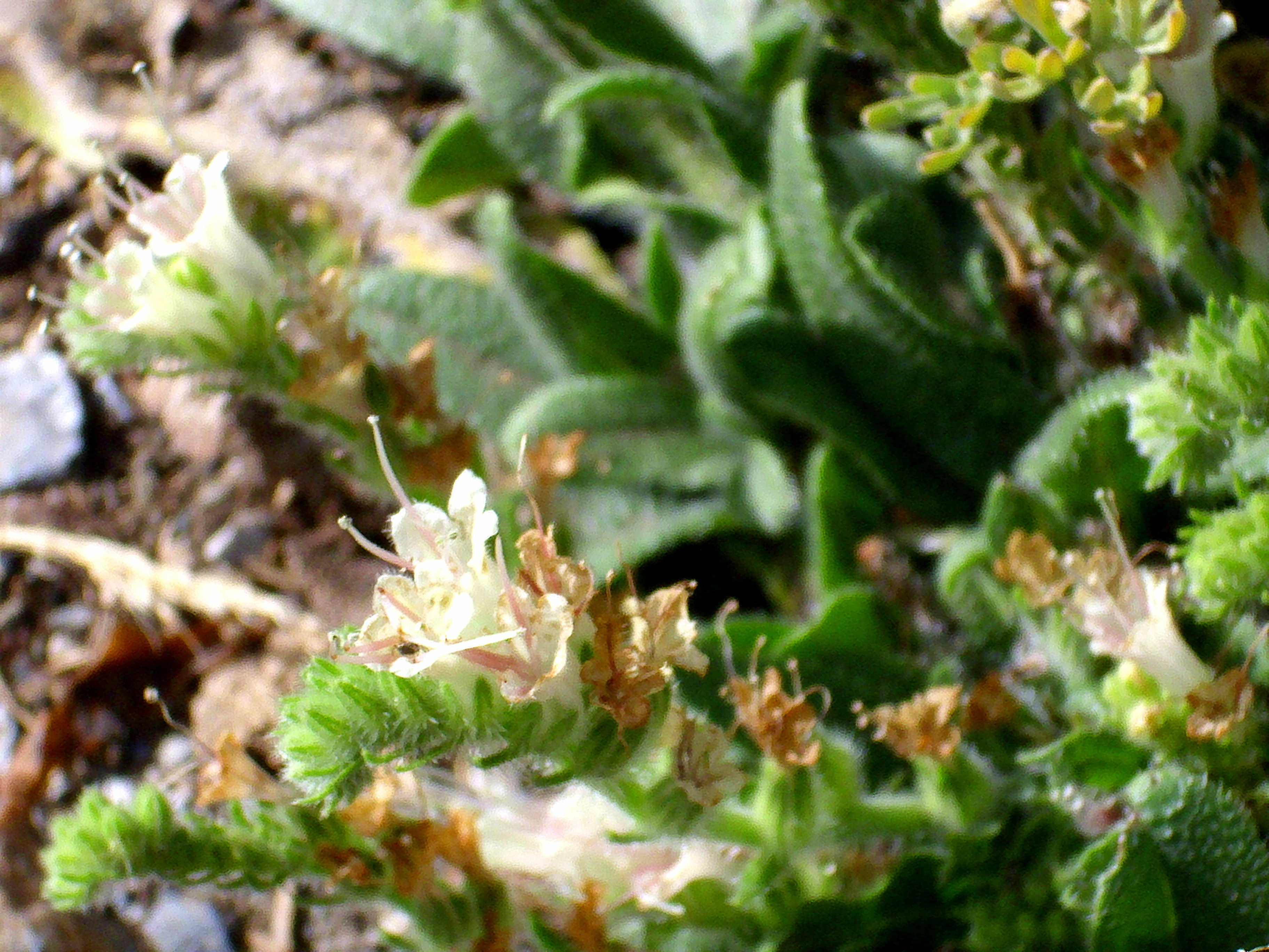 Echium flavum flowers close up, Sierra Nevada(Spain), Spain